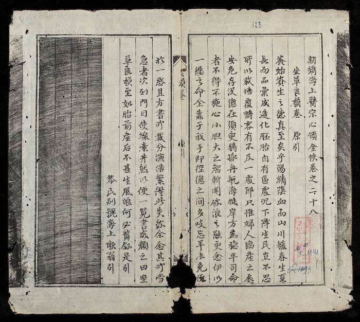 The 28. Volume of "Hải Thượng y tông tâm lĩnh" (《海上醫宗心嶺》)